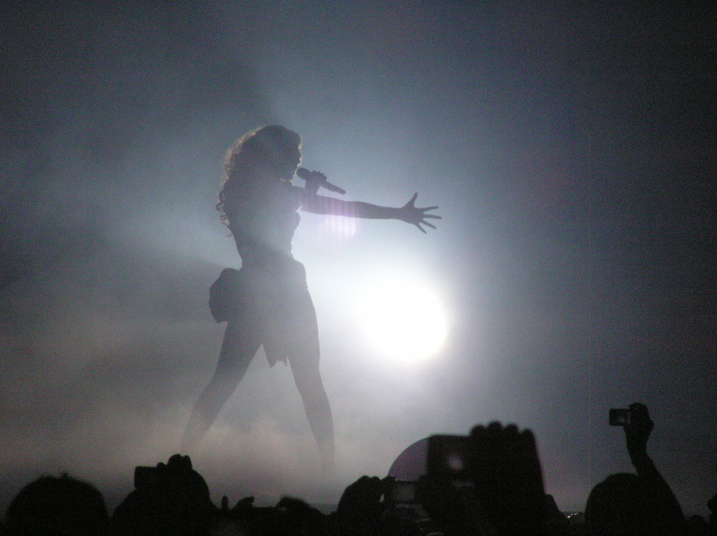 Beyoncé I Am... Tour Newcastle